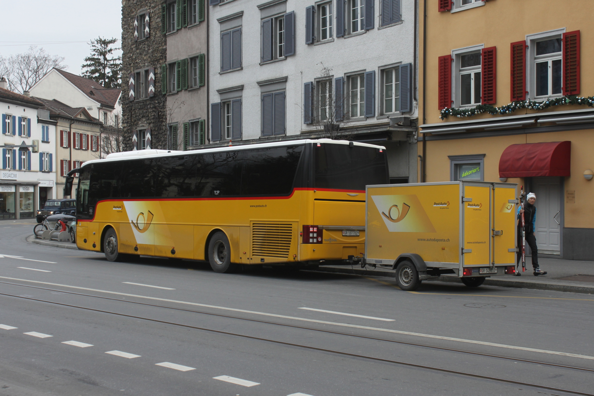 Van Hool T 915 Atlino postal bus (number plate GR 107702) in Chur.